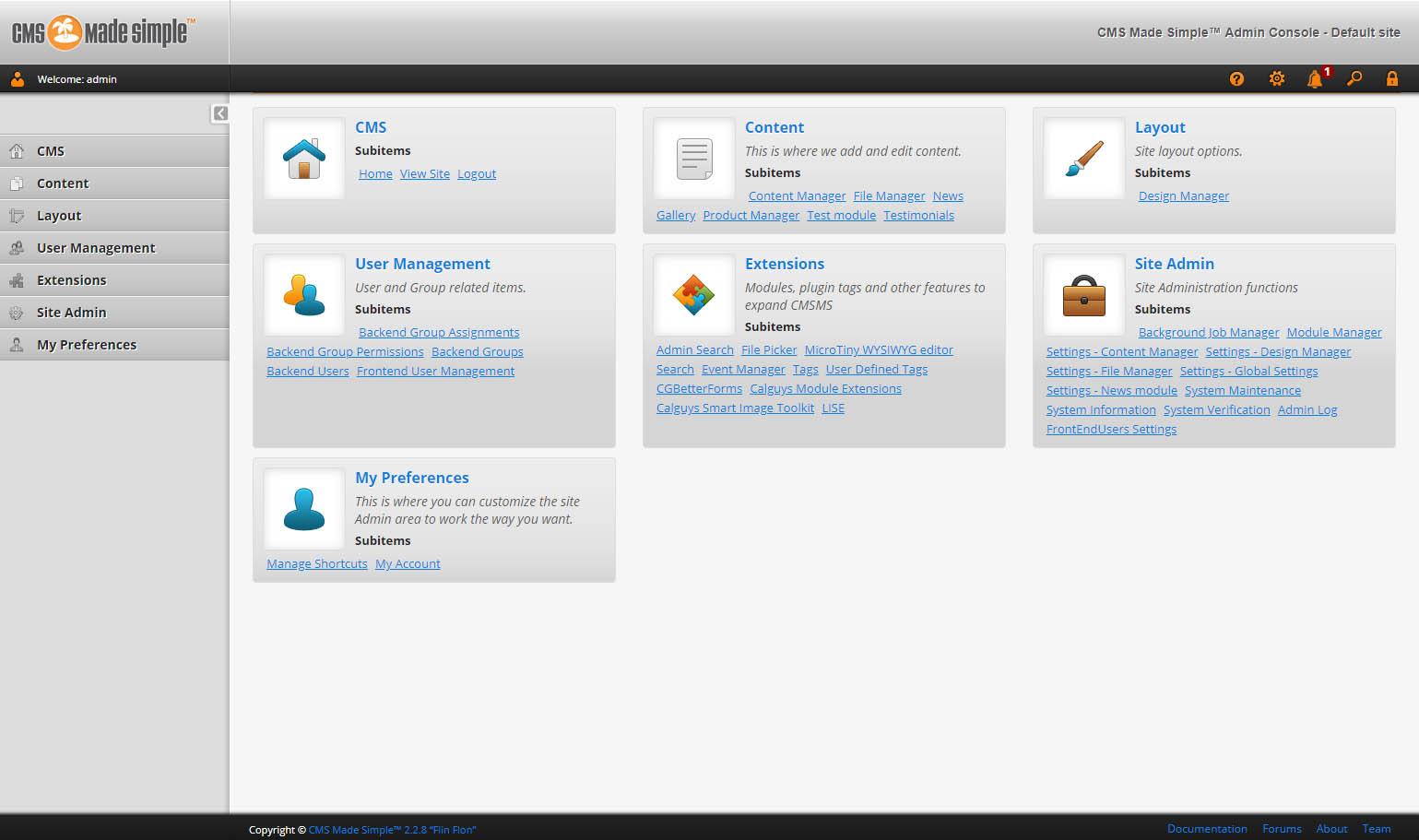 CMS Made Simple Admin Interface